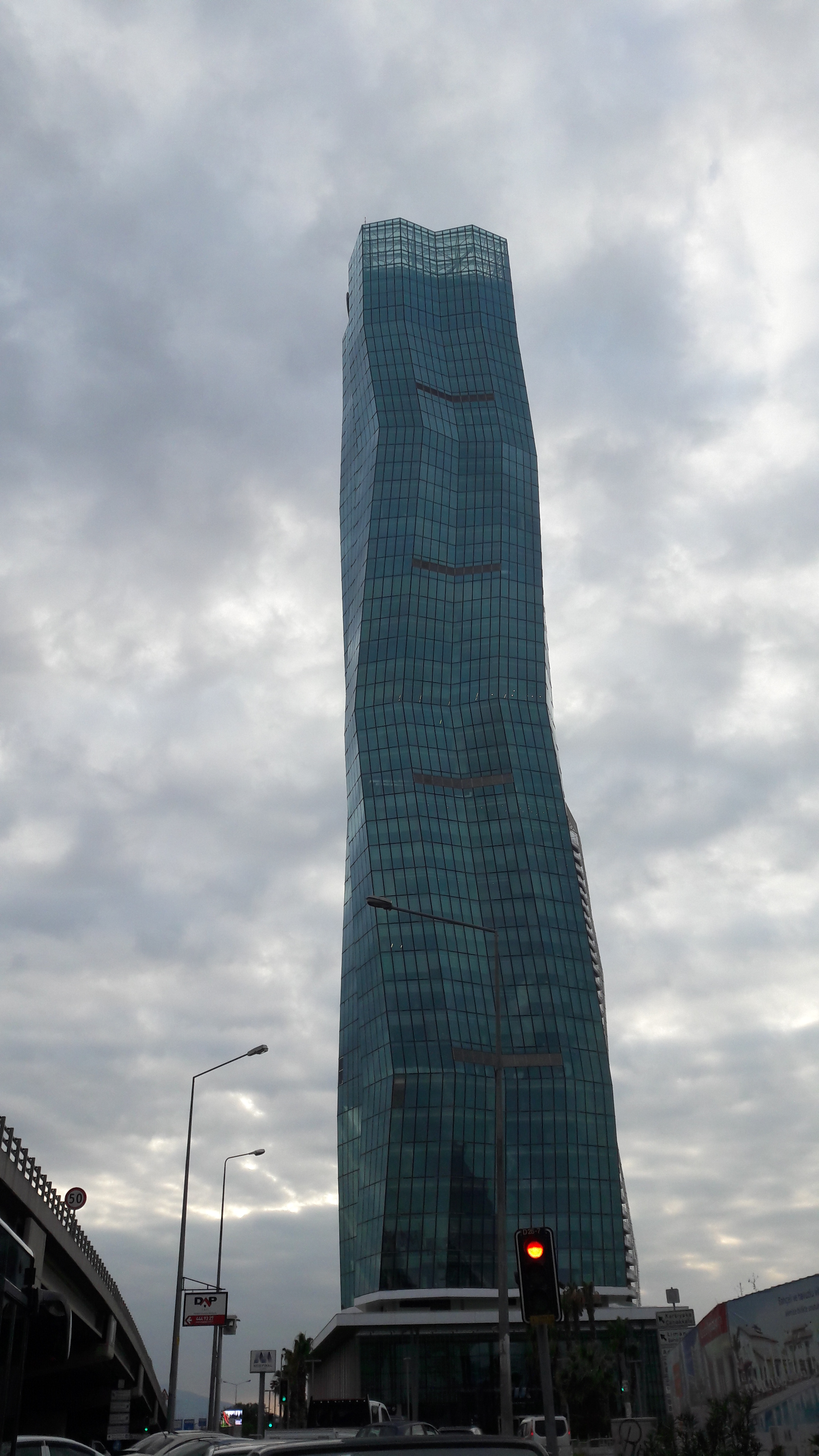 Mistral Office Tower in Izmir.